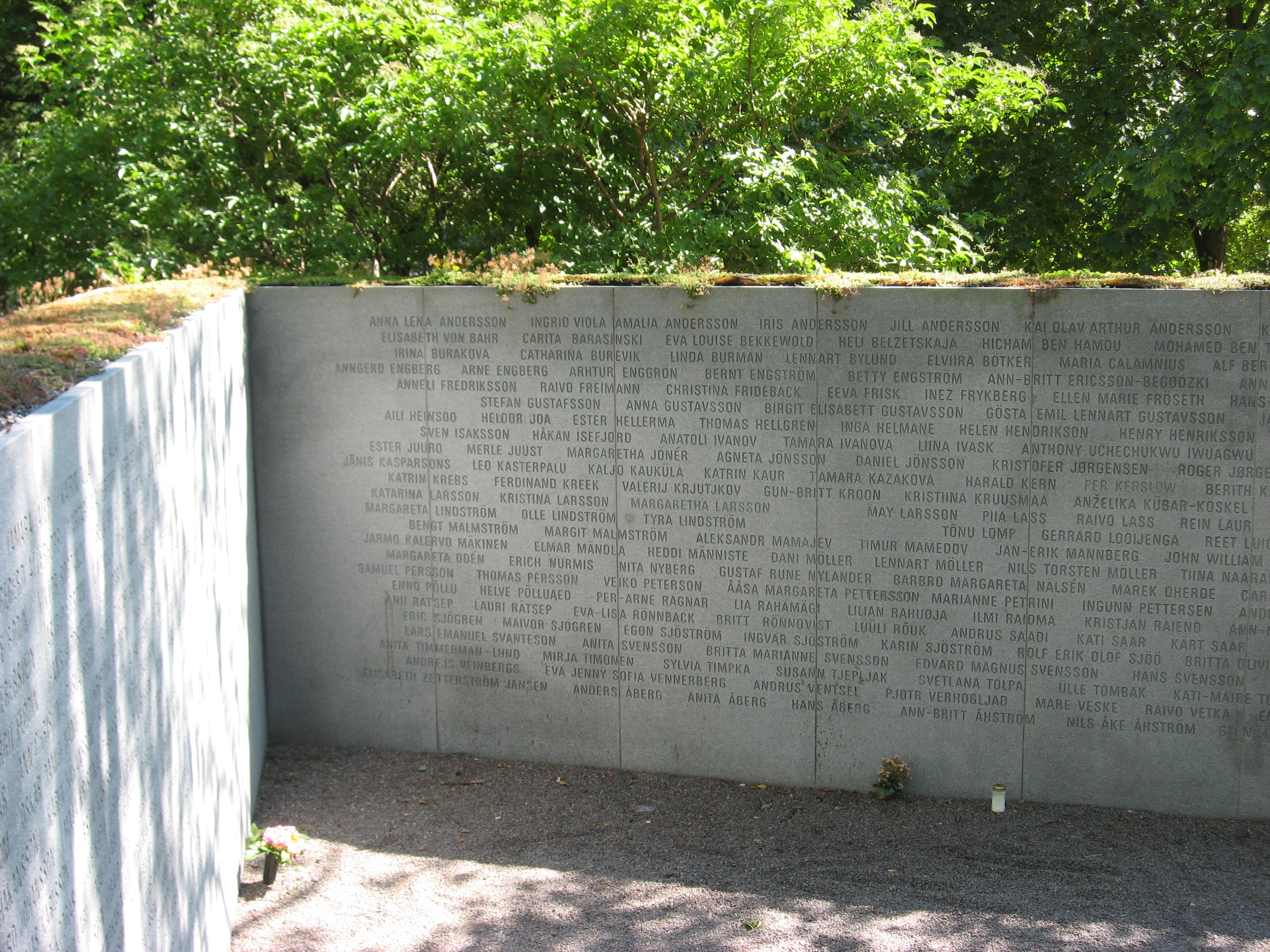 Memorial of M/S Estonia in Stockholm, Sweden.